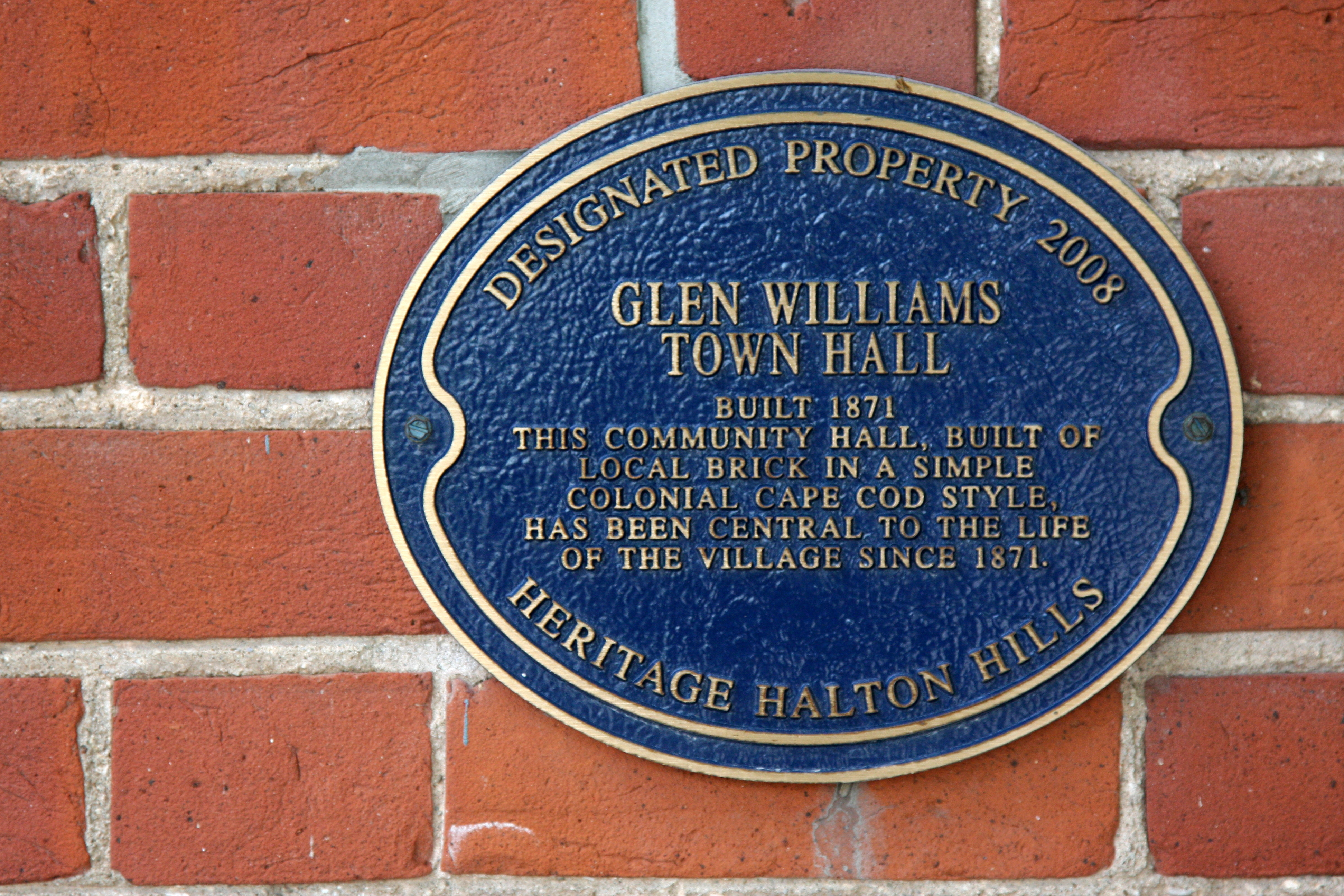 Glen Williams Town Hall has been central to the history of the Village. The Good Templars of Royal Oak Temple approached Charles Williams for a piece of land for a community hall which they could also use for their temperance society meetings. Charles Williams deeded the land to nine trustees to be held in trust for the community. Built from 1870 to 1871, Glen Williams Town Hall has housed numerous societies, churches, political meetings and acted as a polling station for elections. In the twentieth century the hall provided the stage for dances and Canadian author Lucy Maud Montgomery who staged many works there with her Union Dramatic Players. For a brief time from 1949 (due to the collapse of the Glen Williams Public School during renovations) school classes opened in the Town Hall, and in 1953 the building was officially leased to the Board of Education. After the school was relocated, the Town Hall was returned to the community. In 1976, the Town Hall was restored and in 1981 it returned to the original system whereby trustees oversaw its administration. Annual elections are currently held to select these nine trustees who are the legal owners of the building during their time of office. Glen Williams Town Hall continues to play an important role in community life. Glen Williams Town Hall is a good representation of the Colonial “Cape Cod” style built out of small, hand pressed red clay brick made just north of Glen Williams. The hall's small stature, symmetrical facade with central entrance and multi-paned windows reflect the Colonial “Cape Cod” style. Also in keeping with the style, the building has little ornamentation.